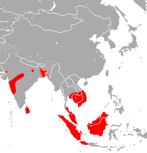 Cantor's Roundleaf Bat (Hipposideros galeritus) range